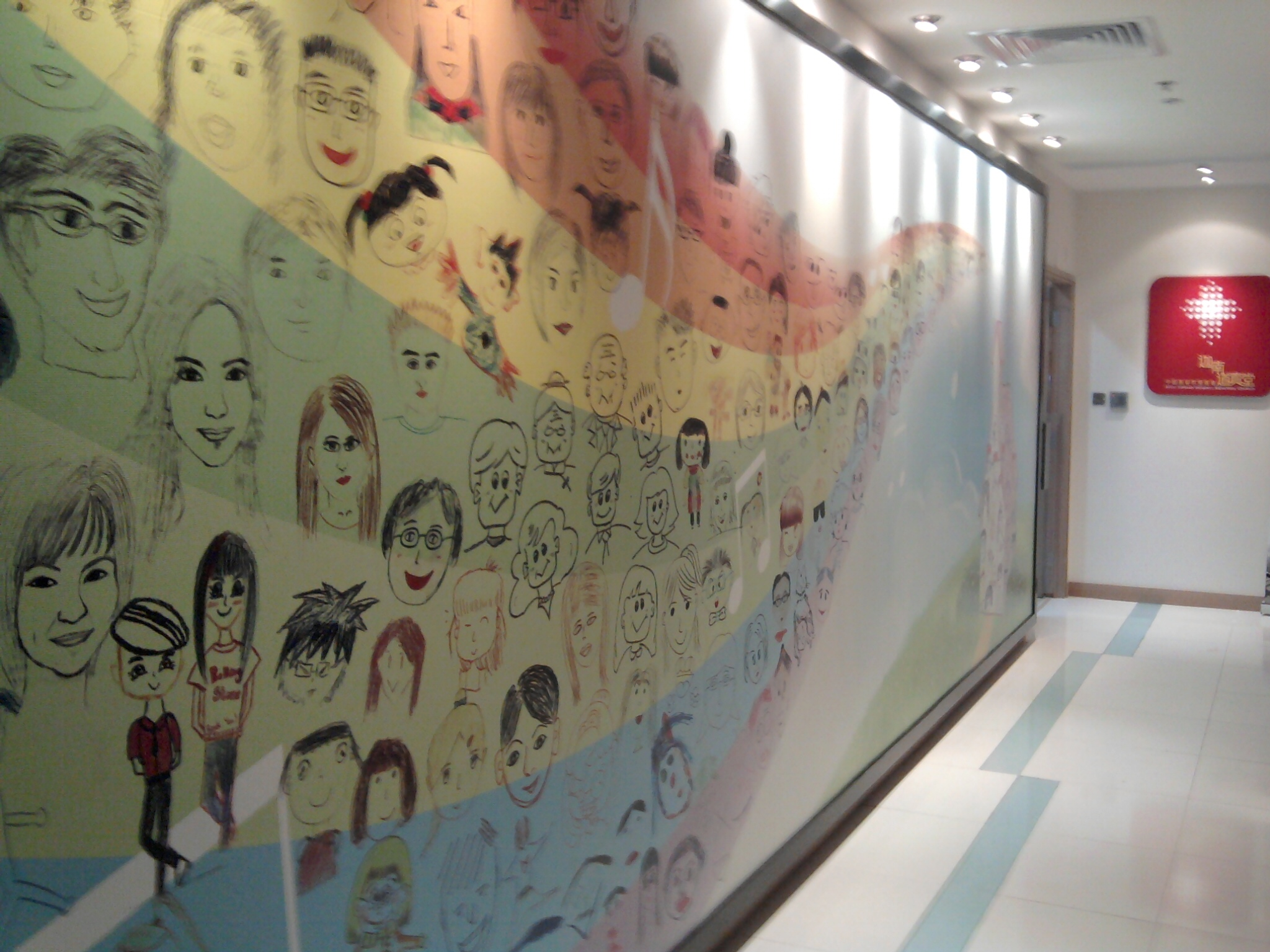 EFCC Canaan Wendell Memorial Church 5/F lobby